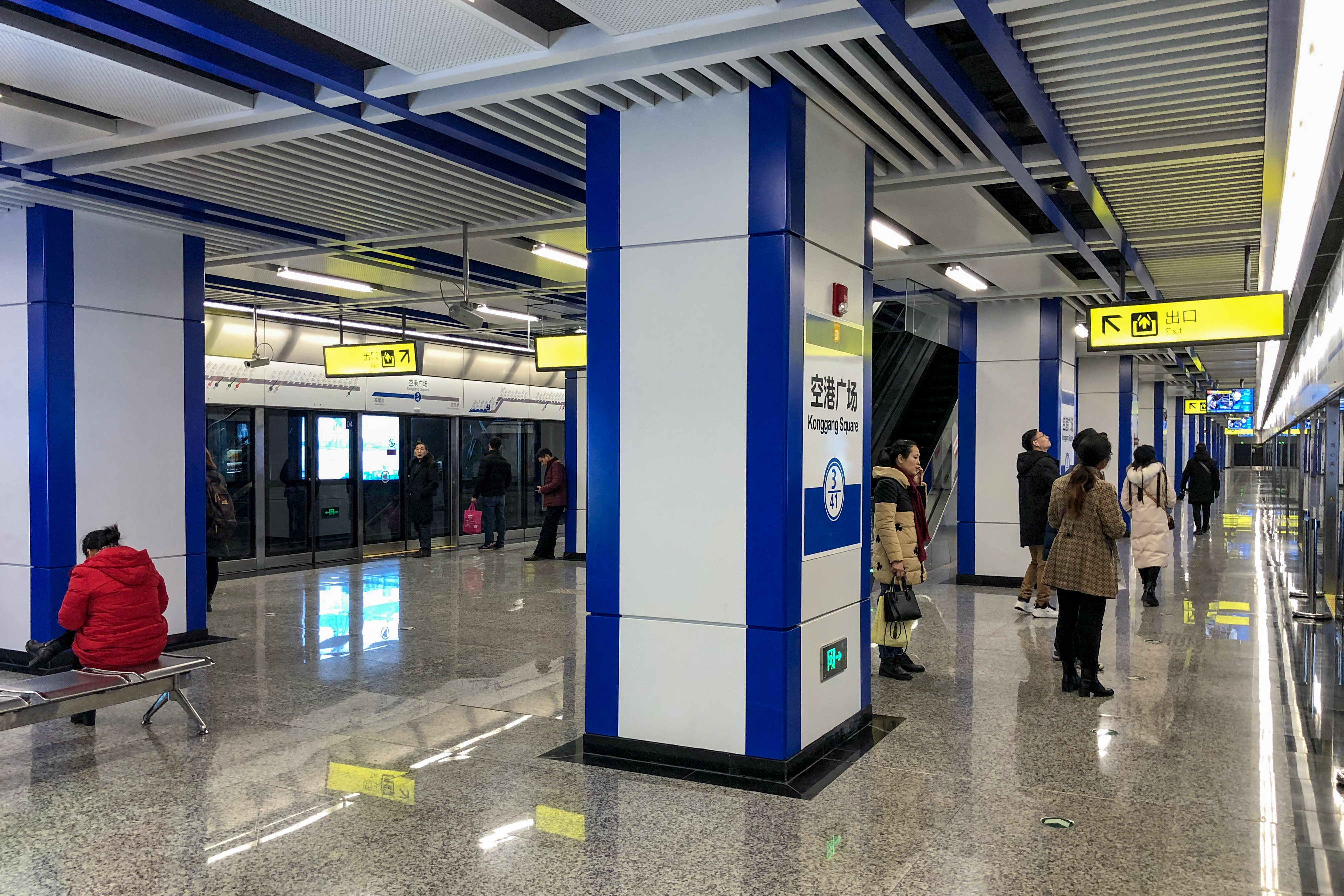 10-minute interval...